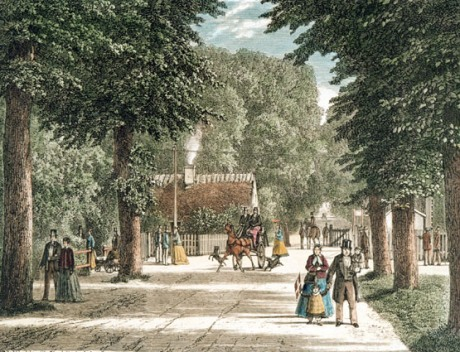 Old image from Jægersborg Allé in Gentofte Municipality, Denmark